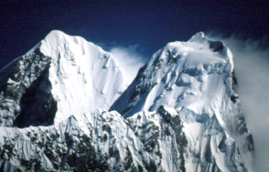 Mounting clouds to Dorje Lakpa